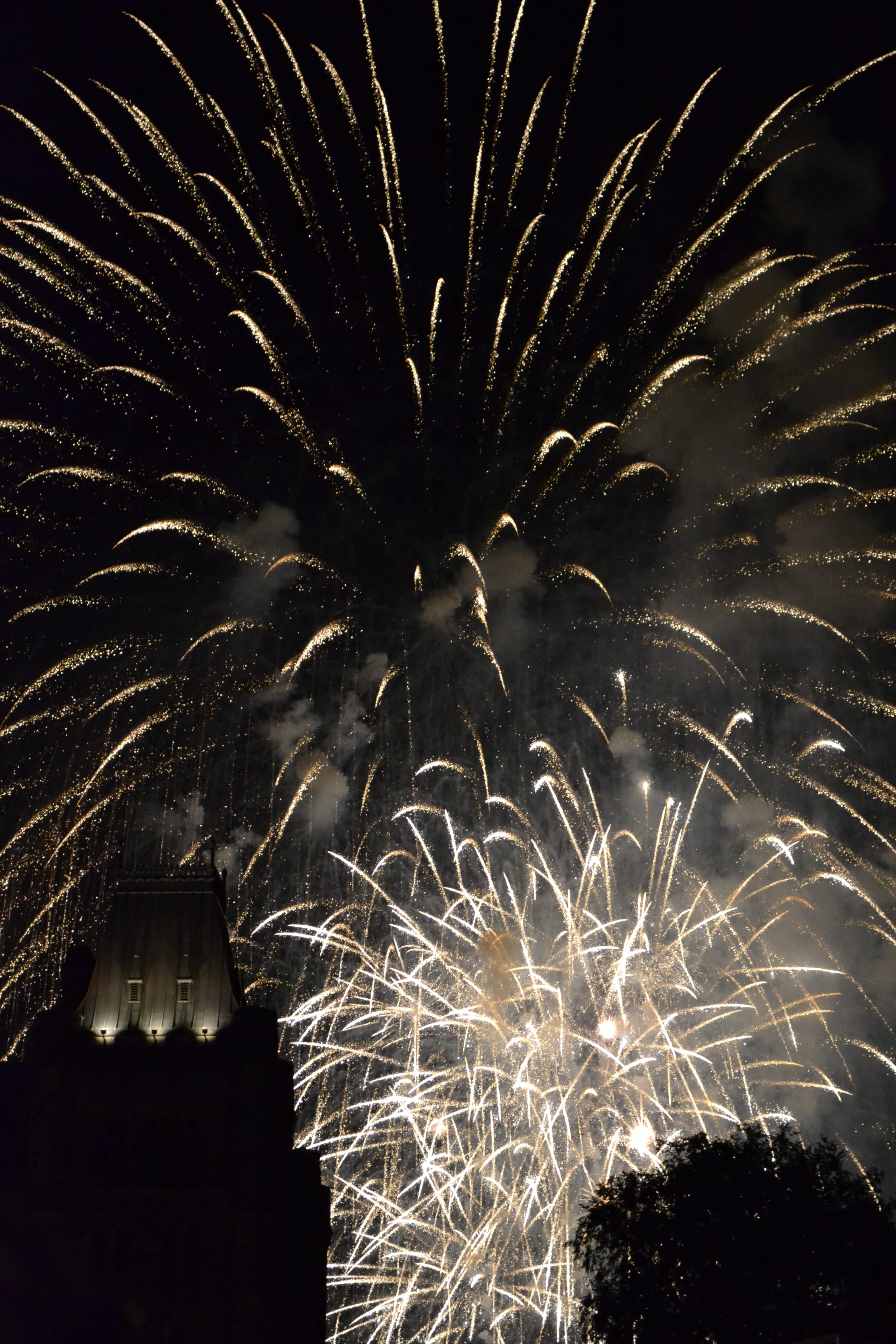 White fireworks go off over parliament hill